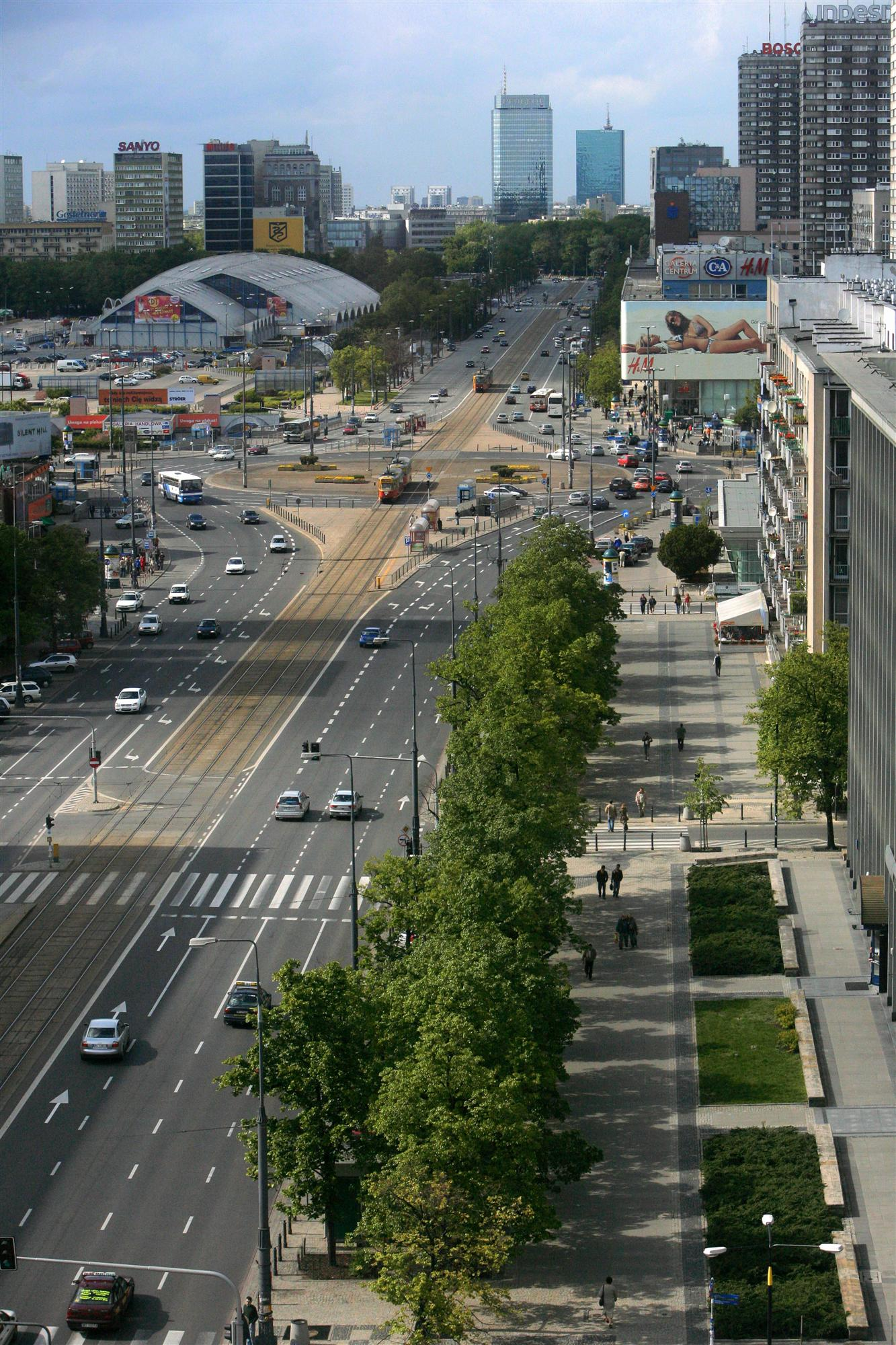 Marszałkowska street in Warsaw, Poland.